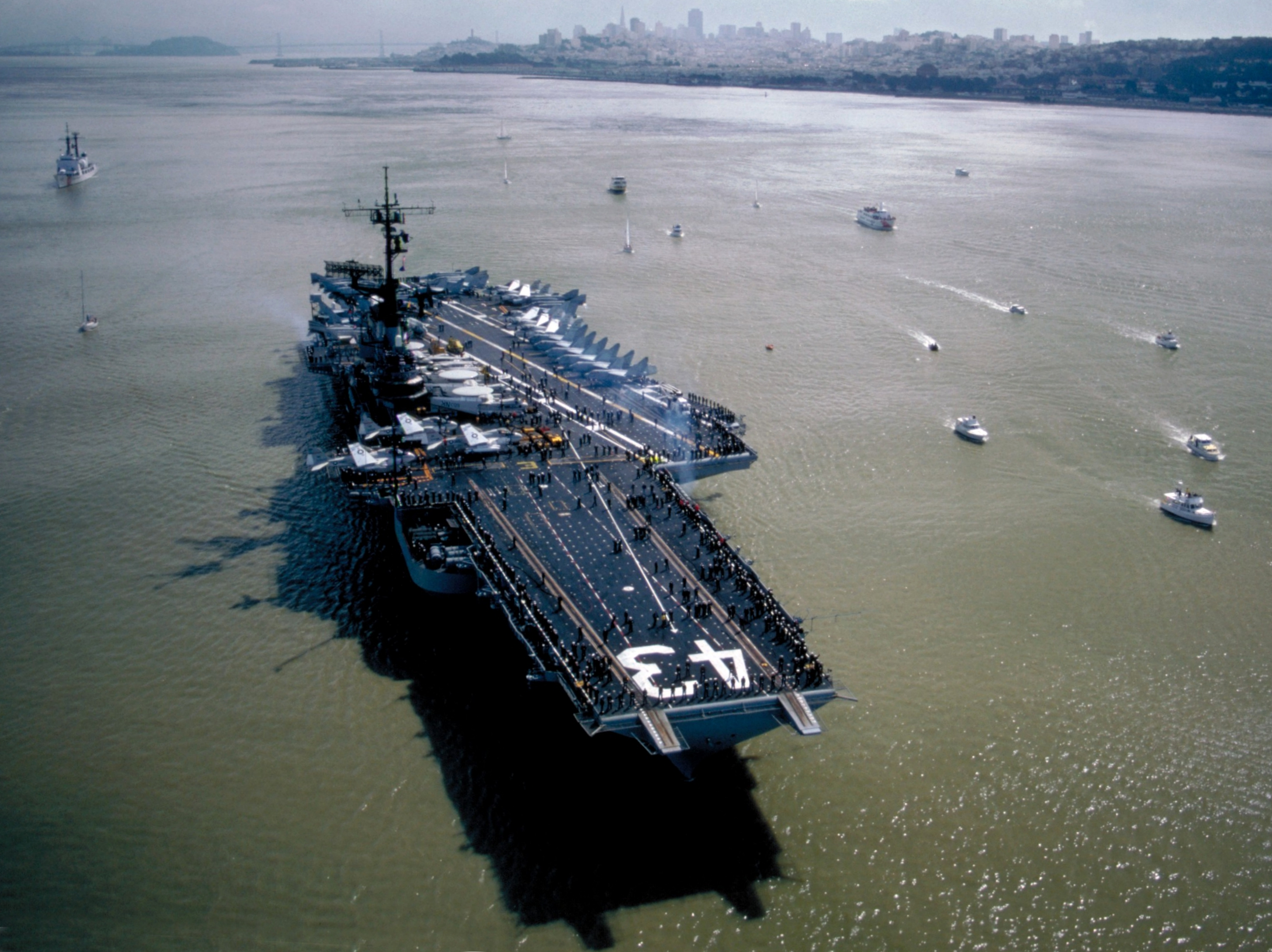 The U.S. Navy aircraft carrier USS Coral Sea (CV-43) as it passes under the Golden Gate Bridge, California (USA), 25 March 1983. Coral Sea was nicknamed "San Franisco's Own", as the carrier was homeported at Naval Station Alameda in San Francisco Bay since 1960. On 25 March 1983, she left for her new homeport Norfolk, Virginia (USA). On deck are aircraft of Carrier Air Wing 14 (CVW-14).